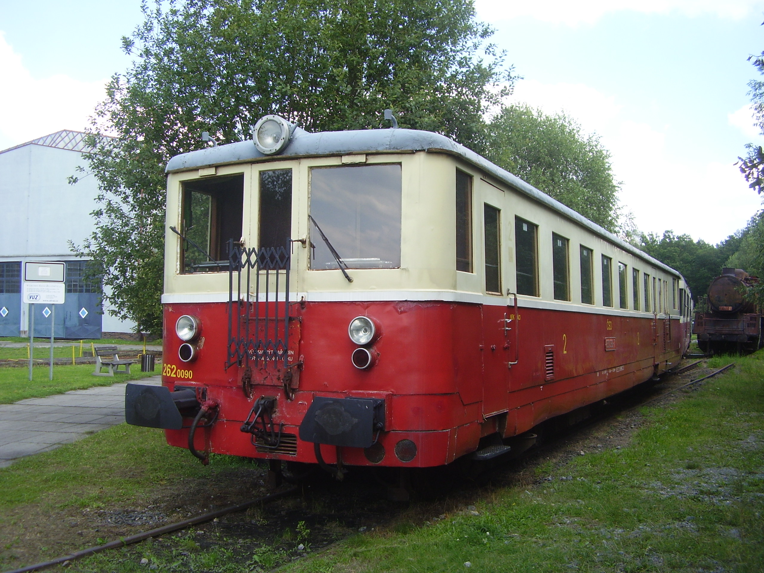 Rai car ČD class 830 in museum in Lužná u Rakovníka